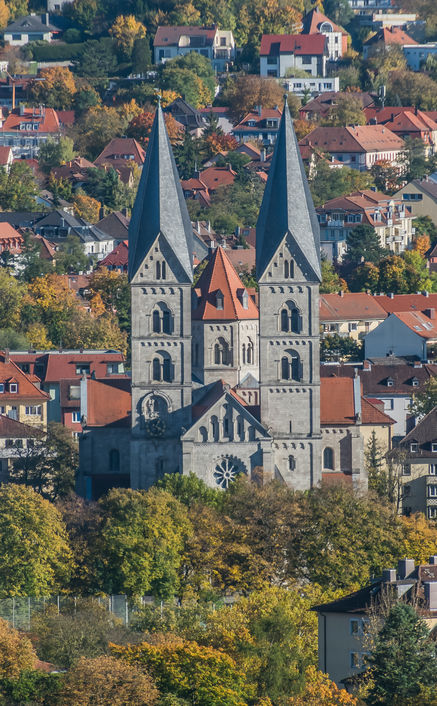 Adalberokirche in Würzburg, Bavaria, Germany